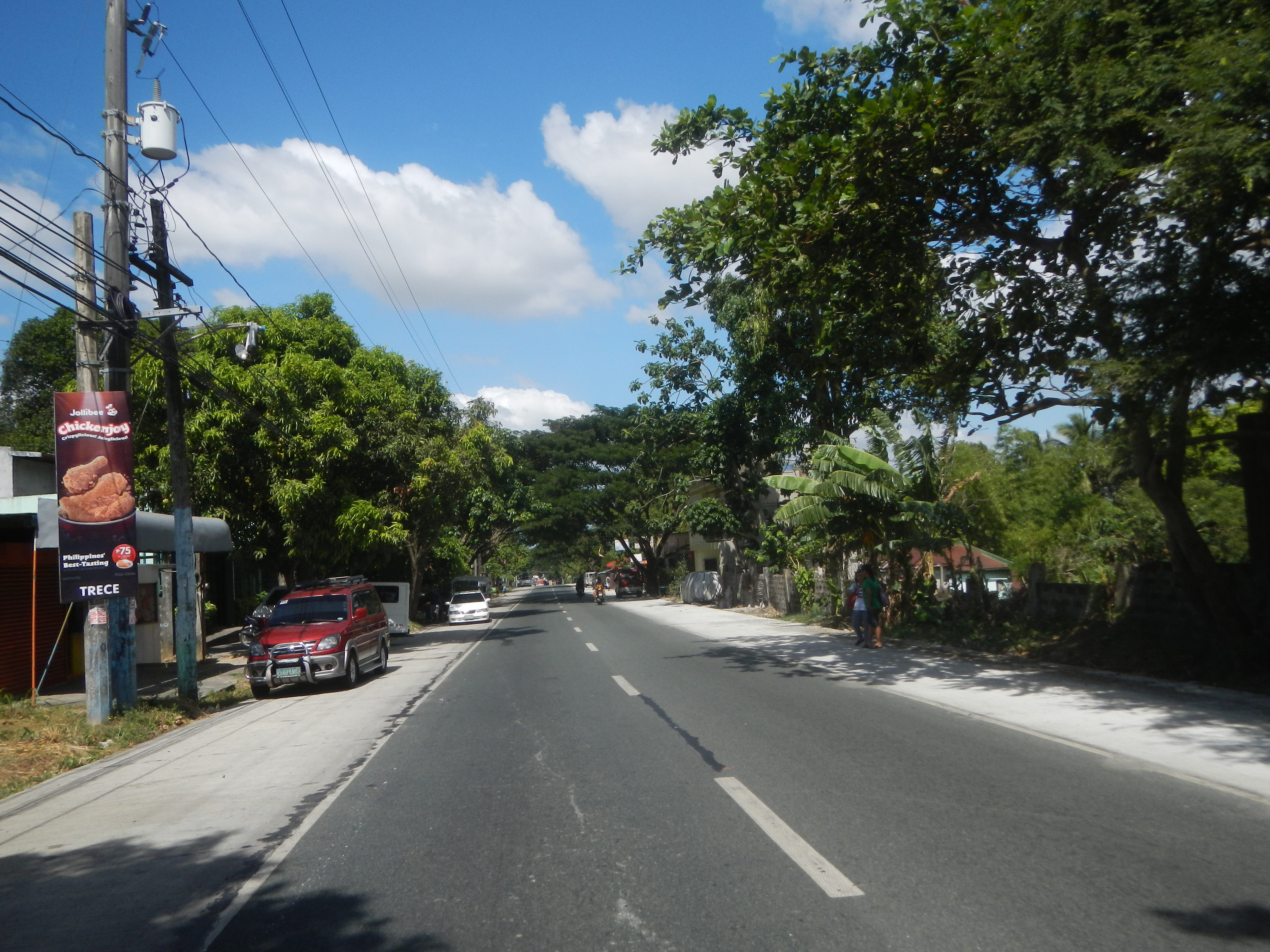 Trece Martires–Indang Road (Trece Martires City section) Trece Martires–Indang Road Barangay San Agustin (Poblacion), City of Trece Martires 14°17'3"N 120°51'23"E Luciano (Poblacion), City of Trece Martires 14°16'43"N 120°52'14"E Inocencio, City of Trece Martires 14°15'17"N 120°52'37"E De Ocampo 14°17'46"N 120°51'55"E Trece Martires Philippine highway network (Note: Judge Florentino Floro, the owner, to repeat, Donor Florentino Floro of all these photos hereby donate gratuitously, freely and unconditionally all these photos to and for Wikimedia Commons, exclusively, for public use of the public domain, and again without any condition whatsoever).